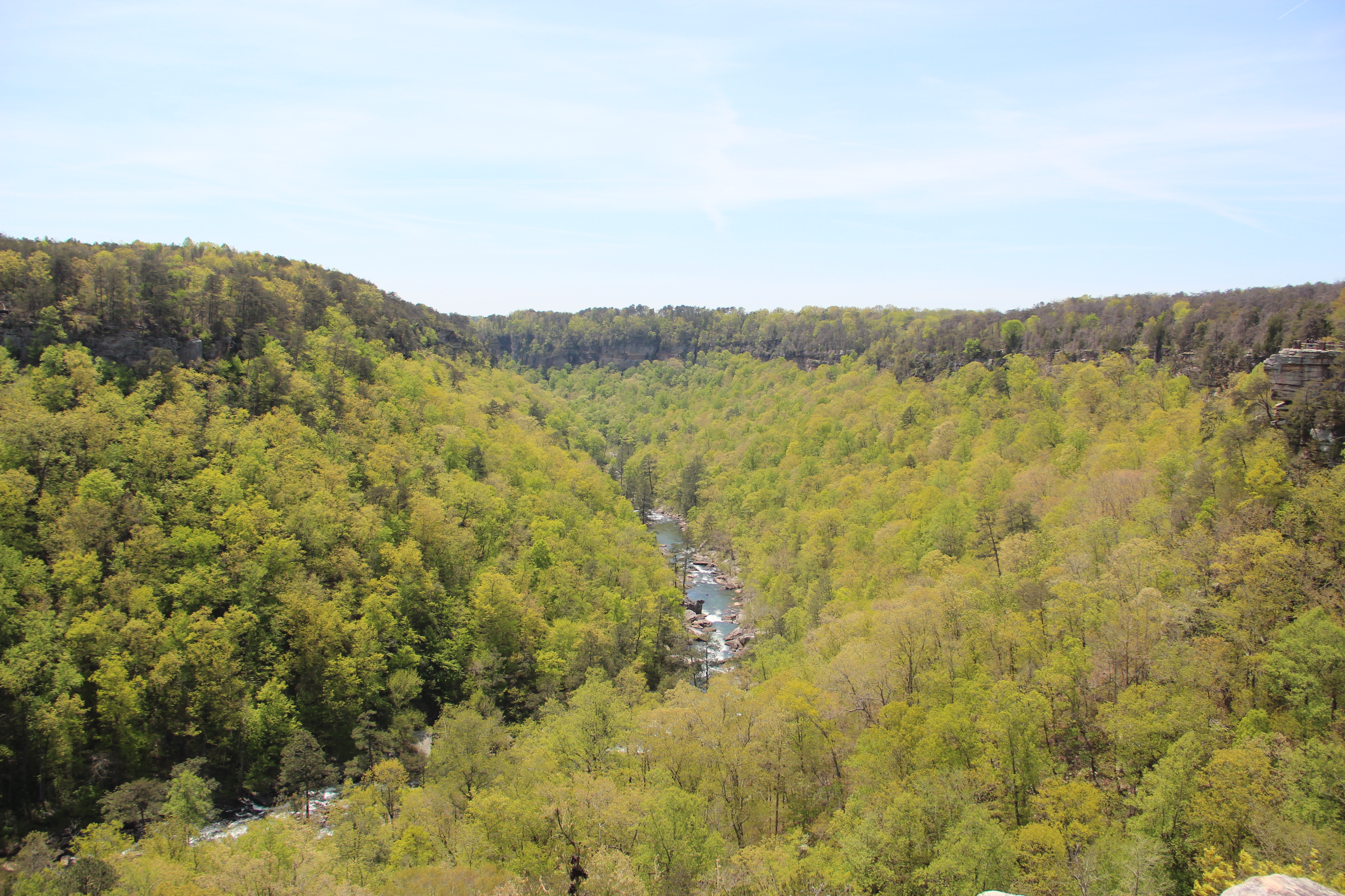 Little River Canyon from Canyon View Overlook